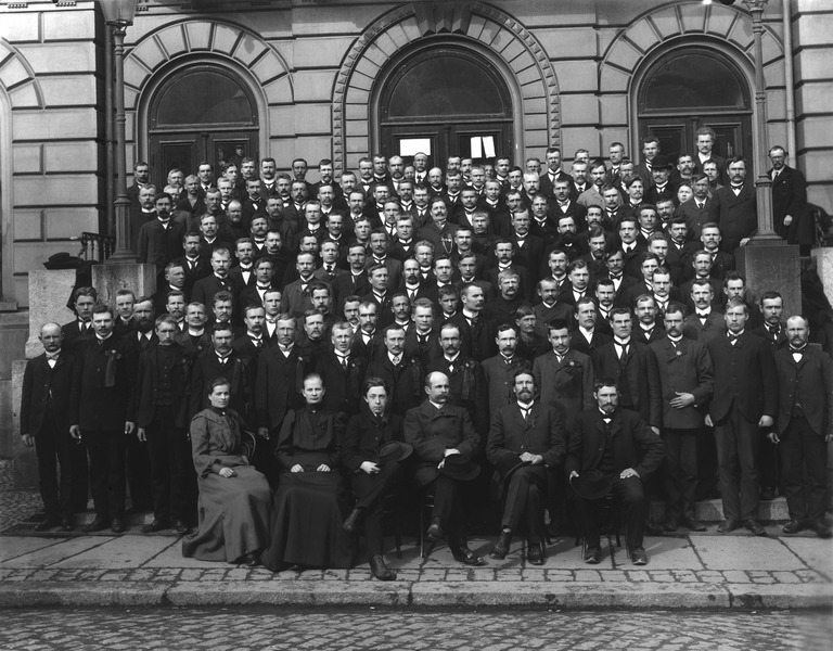 Red Guard congress in Helsinki 1906.